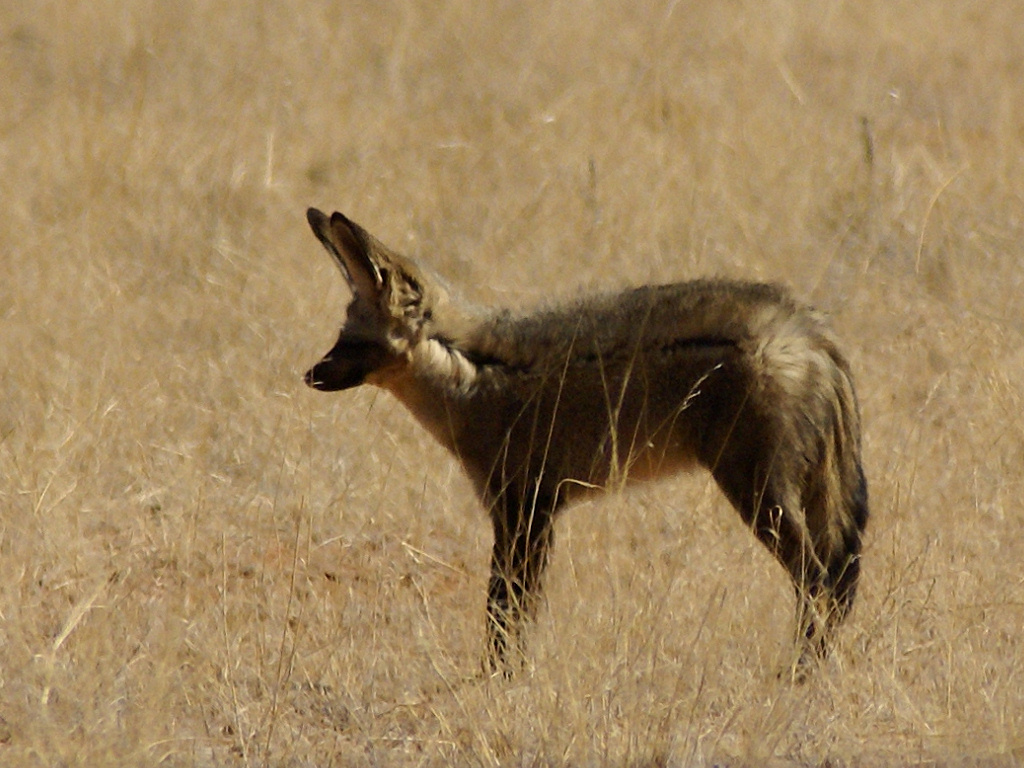 Bat-eared Fox close to Solitaire, Namibia.